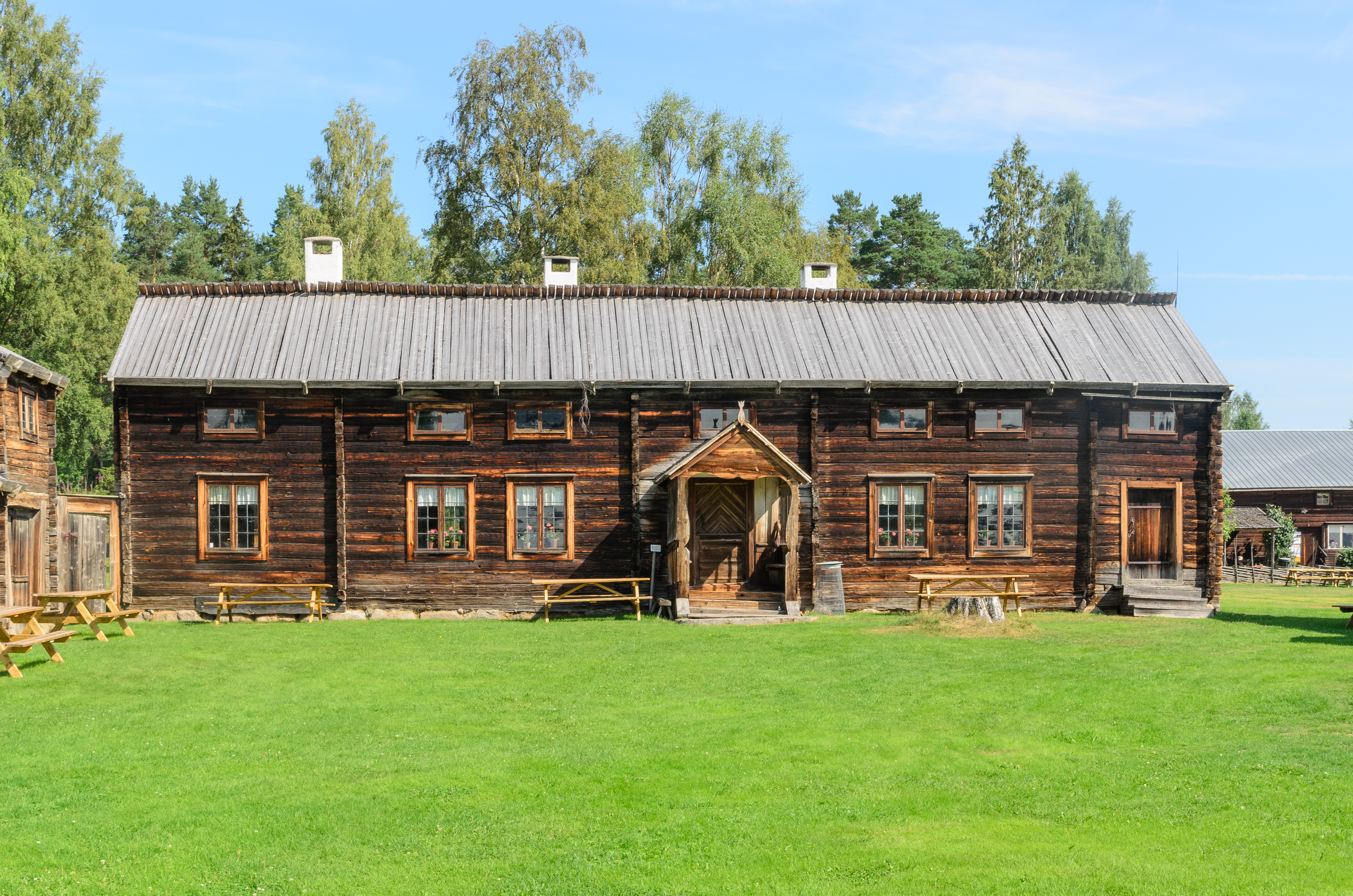 Per-Nilsas Gården (farmhouse) at Delsbo forngård, Hudiksvall Municipality. Typical examples of 1700s architecture in Delsbo, donated to Forngården 1935.